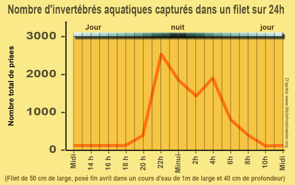 In lotic systems (non-stagnant water, driven by a significant flow from upstream to downstream), many invertebrates are detached from their support, or leave voluntarily divert, and go with the flow. This happens mostly at night, and almost always within 2 or 3 hours after sunset (sunrise) and shortly before dawn. Fish and predatory species also appear more active during these periods. Light pollution might disrupt this mechanism